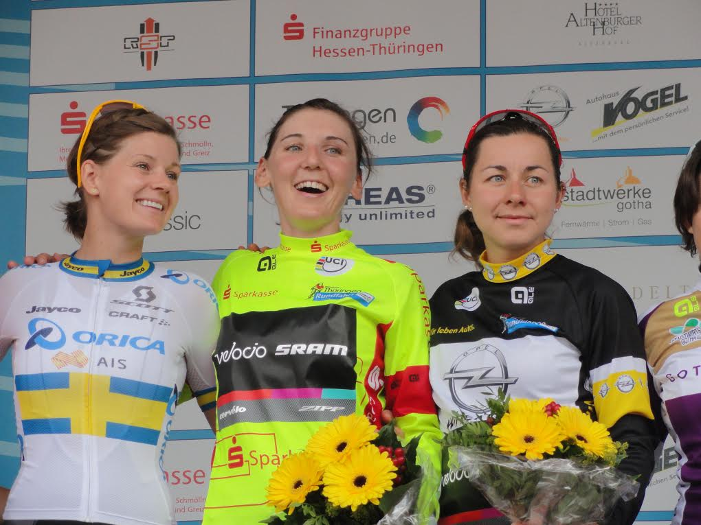 Emma Johansson, Lisa Brennauer and Elise Delzenne on a podium of the Thuringen Rundfahrt 2015